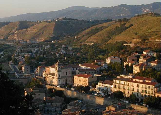 Cosenza - panoramic view from the old town towards the Crati valley and the church of San Francesco di Paola.